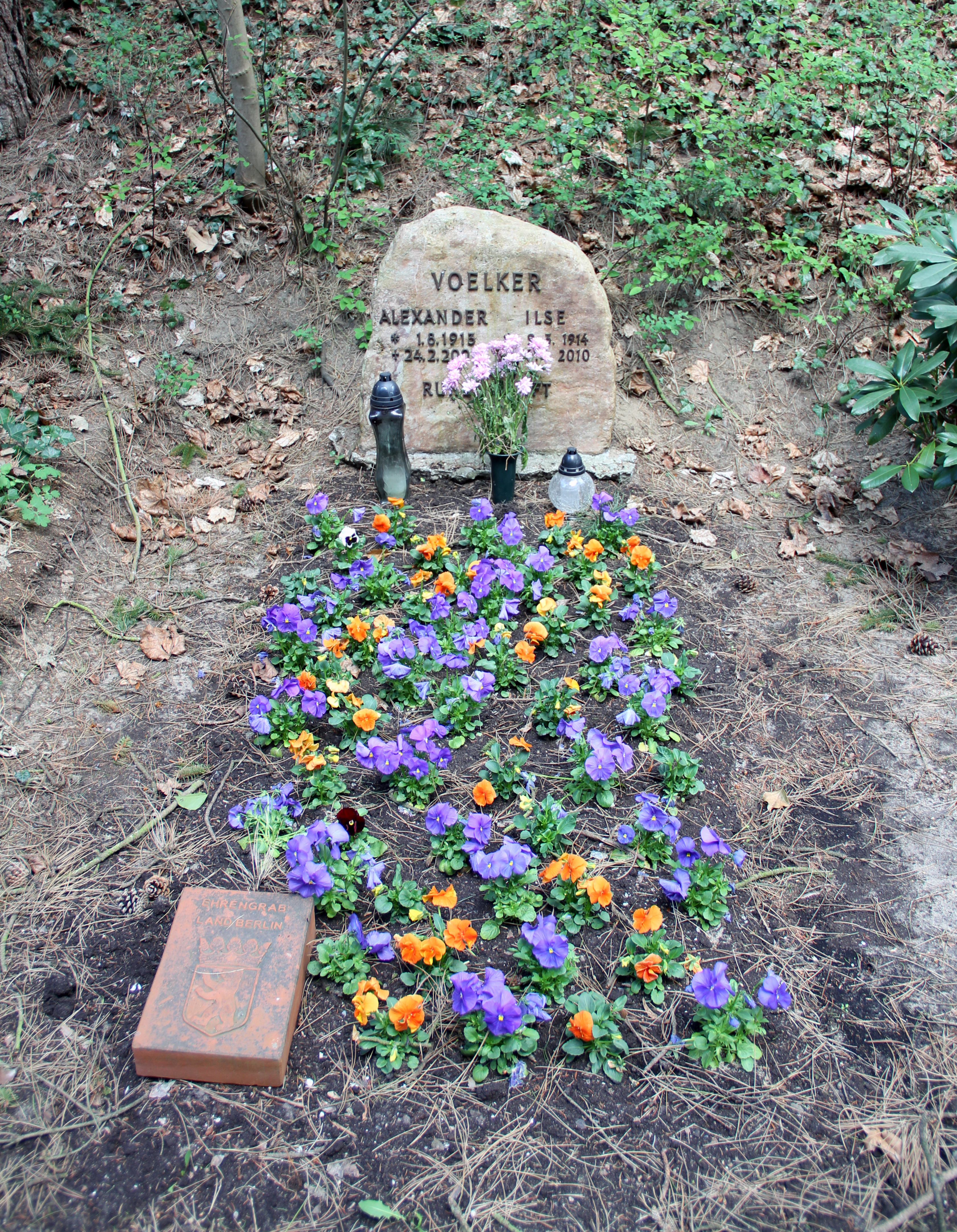 Grave of honor, Alexander Voelker, Trakehner Allee 1, Berlin-Westend, Germany